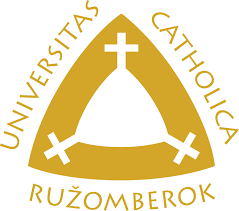 Logo of Catholic University in Ruzomberok